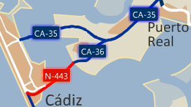 mapa n44